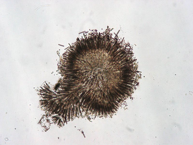 This work is free and may be used by anyone for any purpose. If you wish to use this content, you do not need to request permission as long as you follow any licensing requirements mentioned on this page.